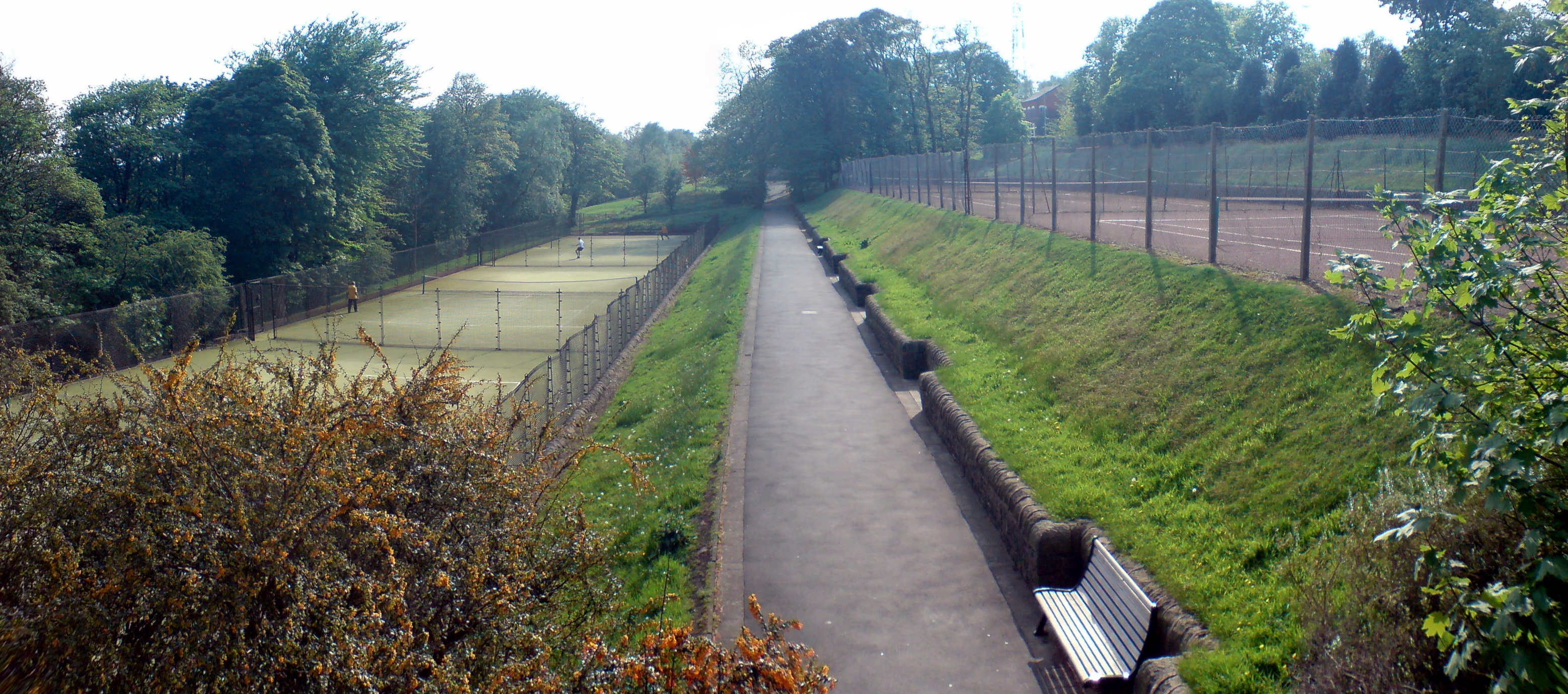 Tiered tennis courts in Corporation Park, Blackburn, UK